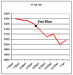 for wikinews, FTSE decline on morning of London blast 7 July 2005